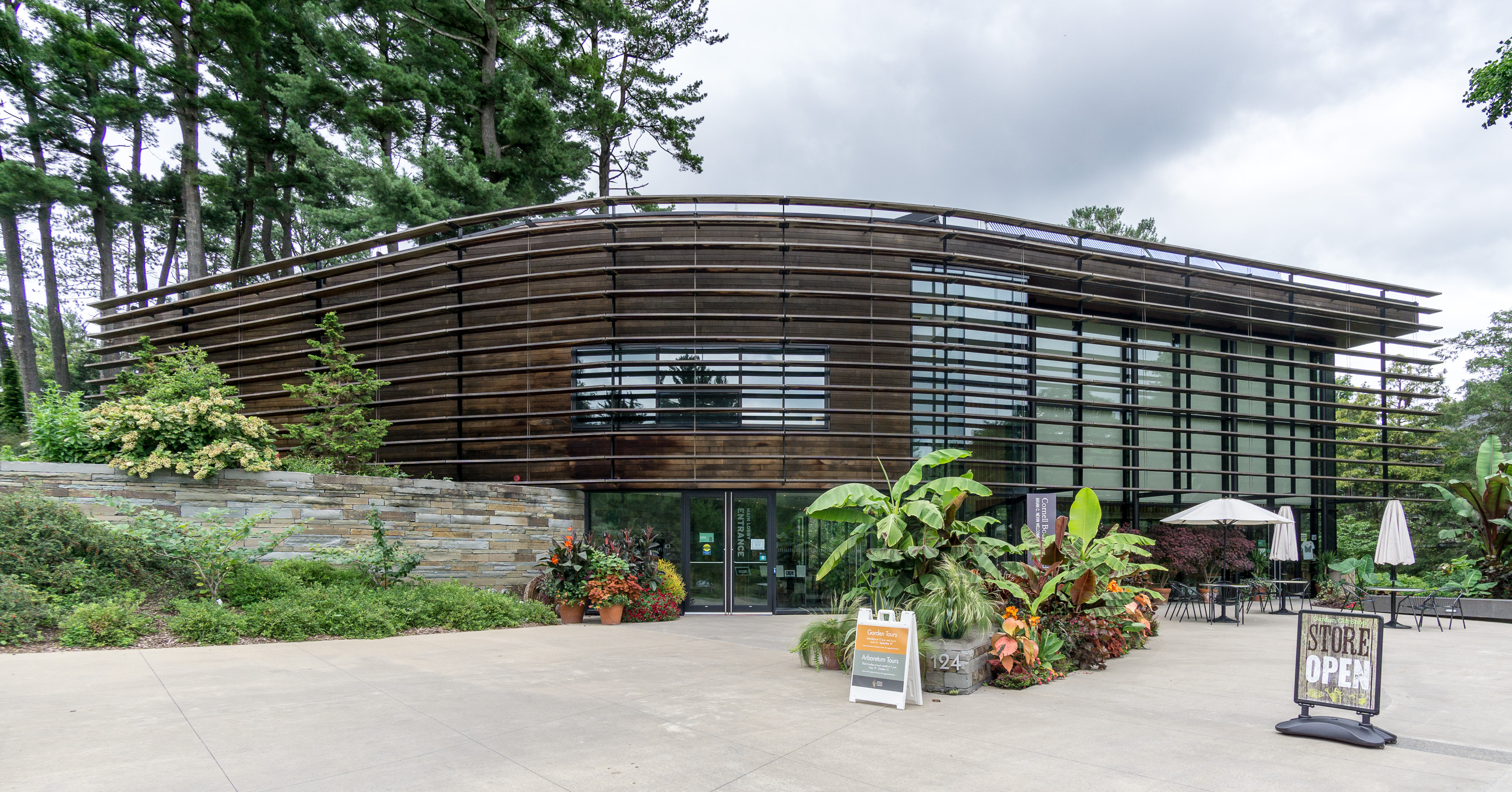 Nevin Welcome Center at the Cornell Botanic Gardens. Architect: Baird Sampson Neuert. Dedicated Oct. 28, 2010.